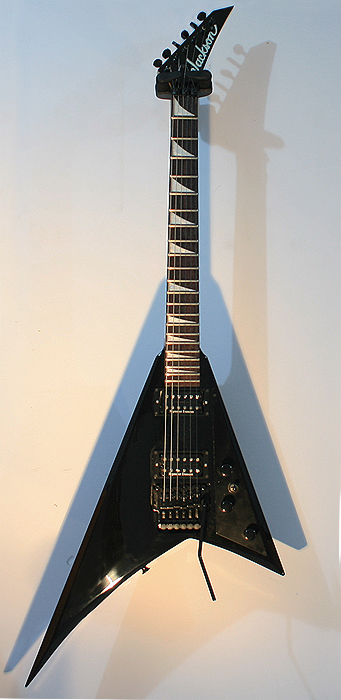 Photo Of Jackson Randy Rhoads RR3 Guitar